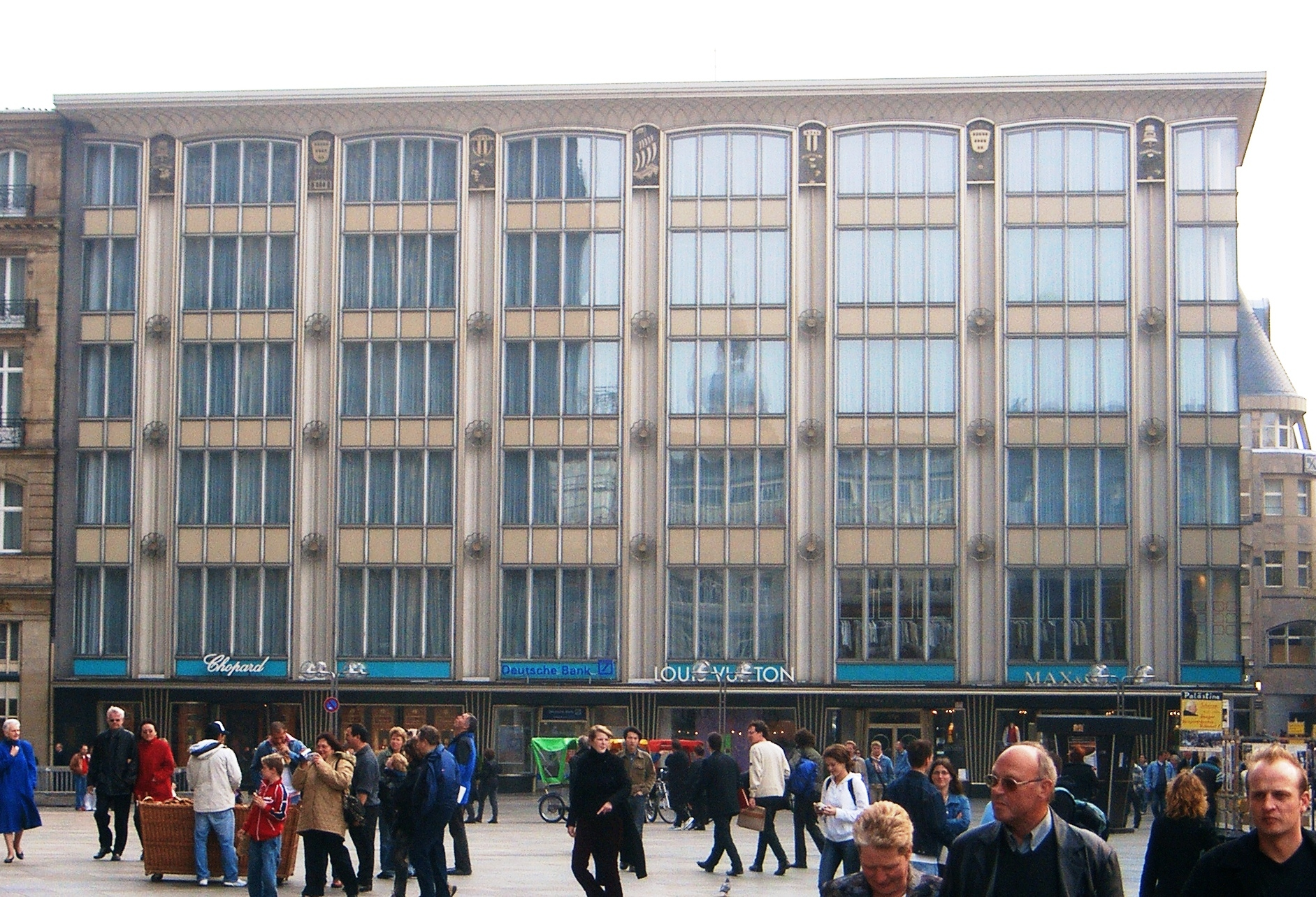 "Blau-Gold-Haus" in Cologne, Germany. Address: Domkloster 2 (next to Cologne Cathedral). Build 1952 by W. & R. Koep for the perfume company "4711". This is the photograph of an architectural monument. It is part of the list of cultural monuments of Köln, no. 6119